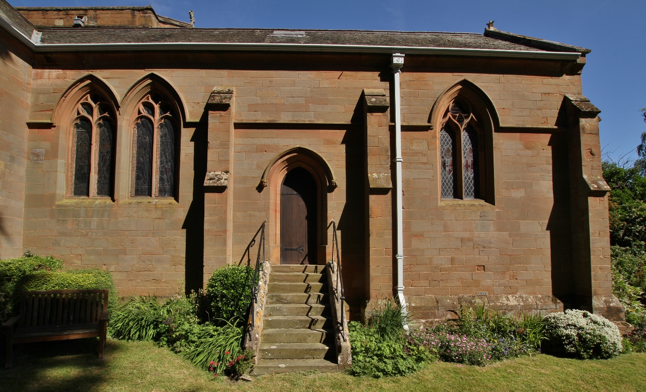 South side of the Lady Chapel of the parish church of St Nicholas, Kenilworth, Warwickshire, seen from the south